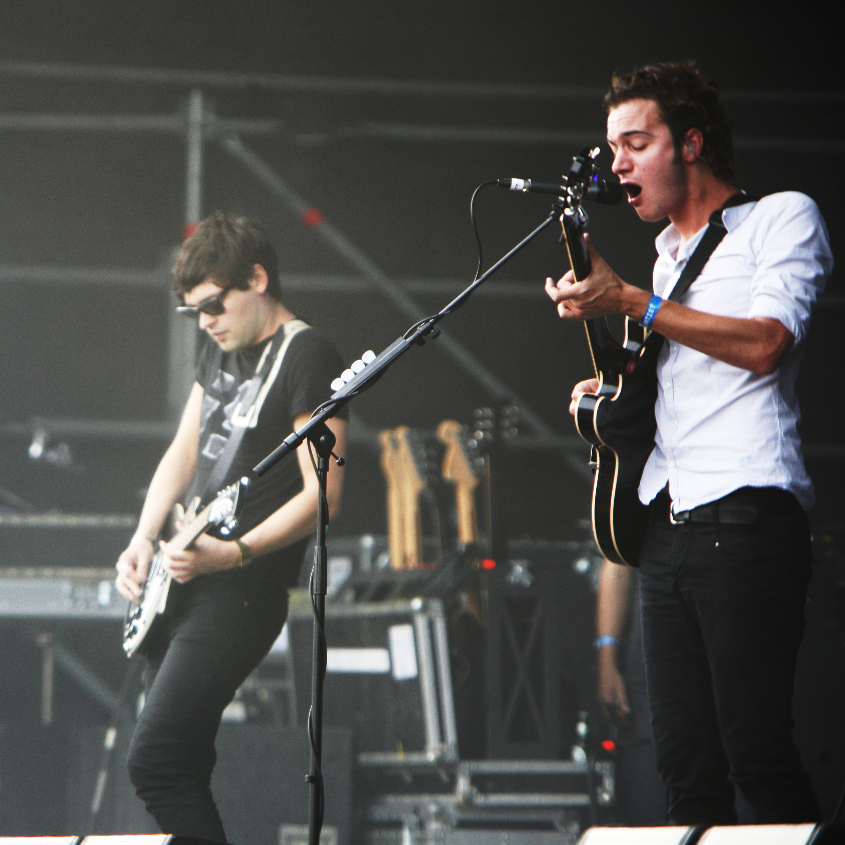 Editors at the Eurockéennes of 2007